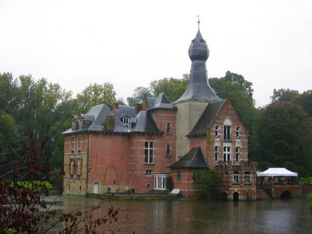 A castle on an island in the city.